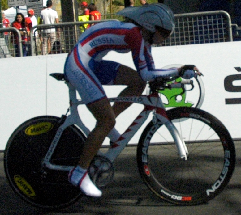 2013 UCI Road World Championships, Anastasiia IAKOVENKO